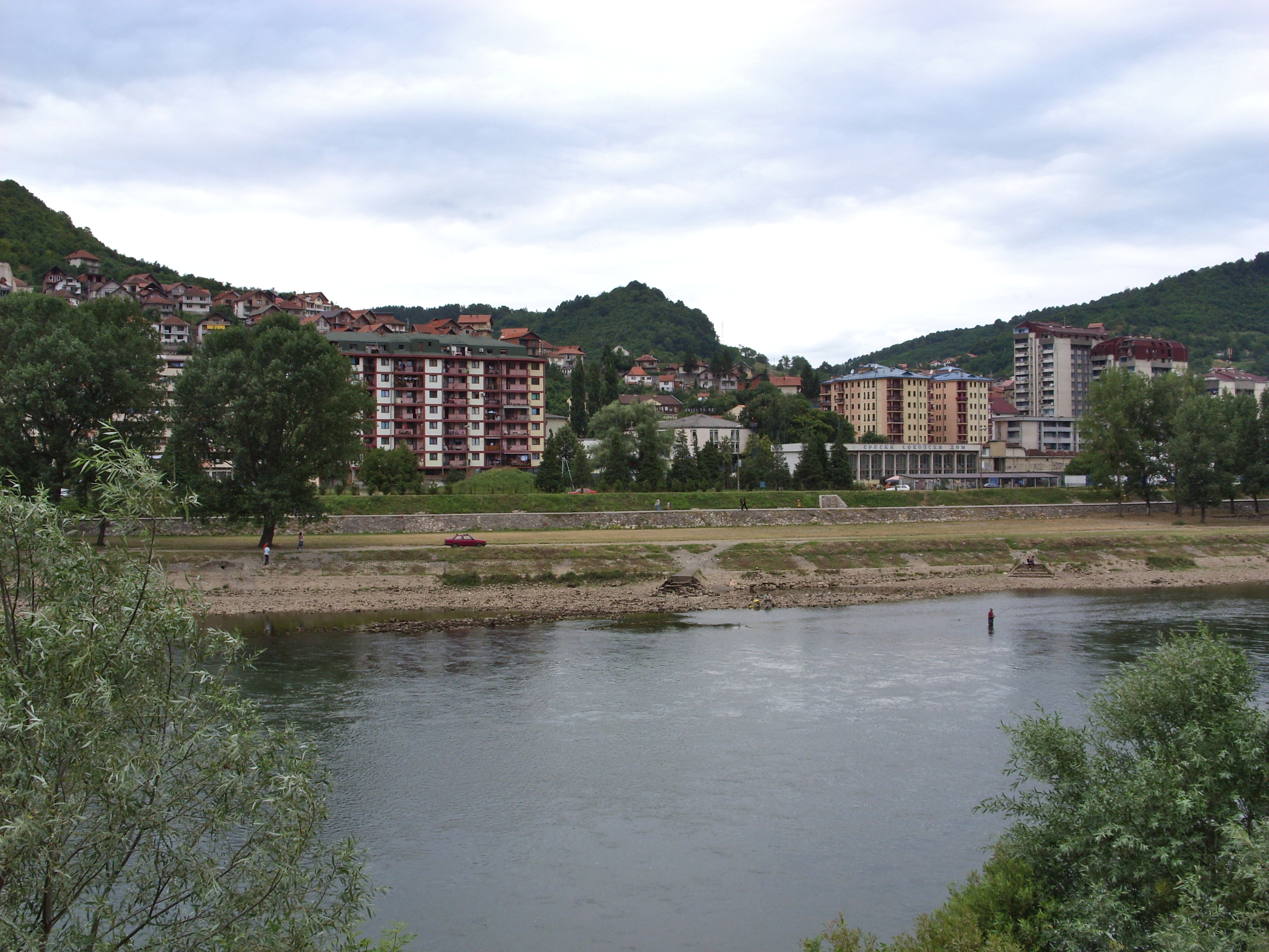 The city of Zvornik on River Drina (Bosnia and Herzegovina).